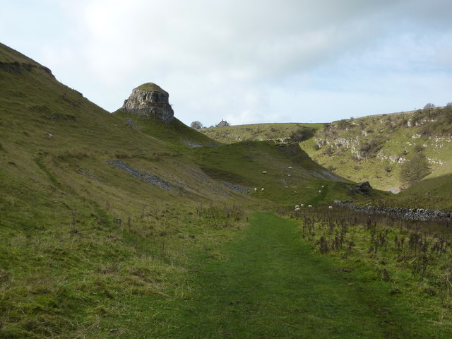 Peter's Stone, Cressbrook Dale A limestone dome which is known as Peter's Stone, due to its shape resembling the basilica of St Peter's in Rome. Its other name is Gibbet Rock. It is the site of Derbyshire's last gibbeting in 1815; there were two forms of this practice; the first was to put a condemned person alive into a cage, hoist it in the air and leave them to die; alternatively the condemned would be executed , and the body left as a reminder of what happened to criminals. This final gibbeting involved a convicted murderer, called Anthony Lingard, and a very popular event it was too; booths and stalls were put up for all the sightseers; the local minister, alarmed at his falling congregation (they were all down in the dale gawping ), held his sermons here. After a decent interval, the iron frame of the gibbet was dismantled, and, it is said, an enterprising chap made toasting forks from pieces of the cage. The offending skull was exhibited in Belle Vue Museum, Manchester. (Thanks to Mark Darlington for his article in Reflections magazine)